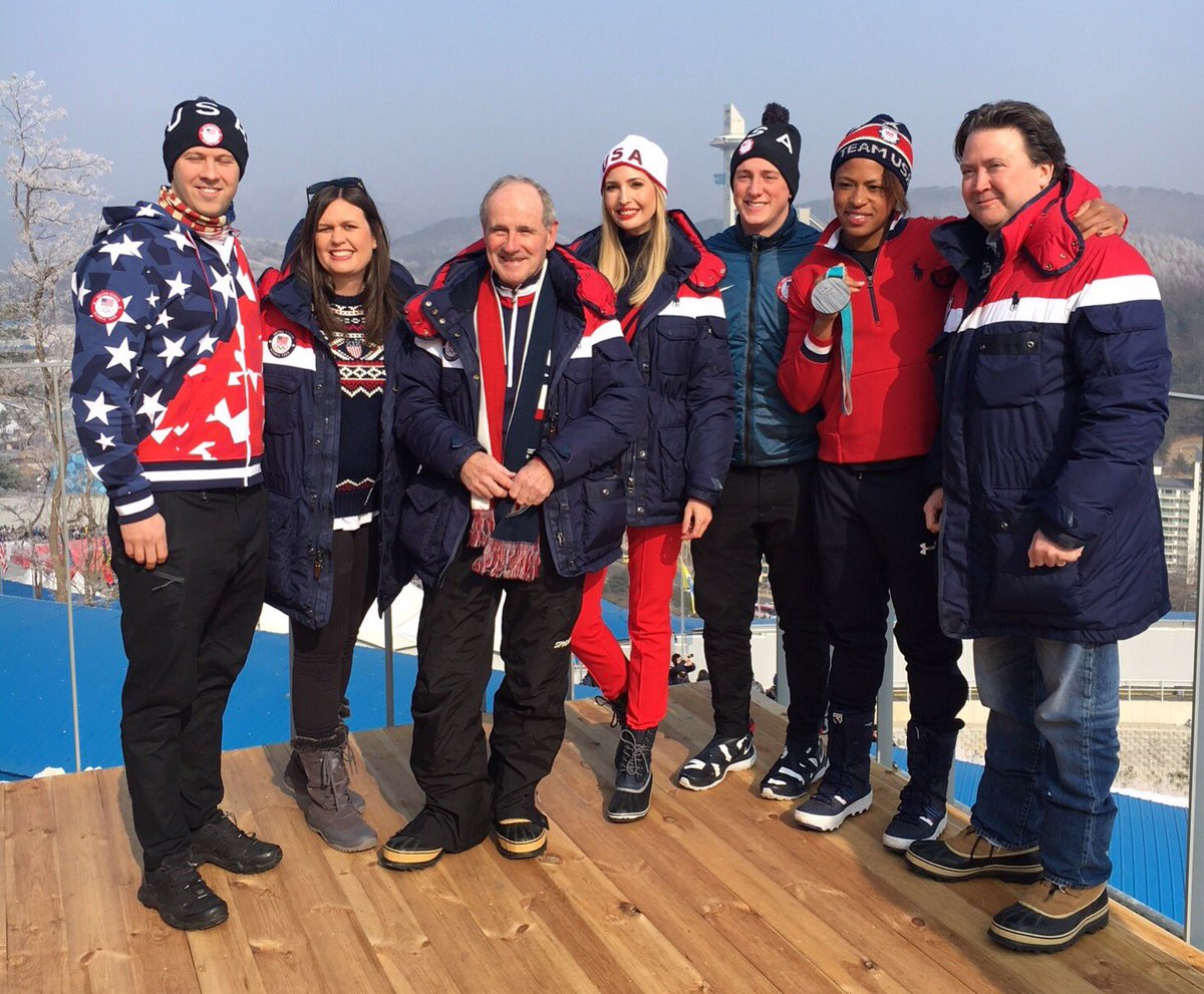 "Hanging out with amazing American athletes and their families as we get ready to watch USA in the men’s 4-man bobsleigh finals. Go TeamUSA! 🇺🇸 #TeamUSA #WinterOlympics #PyeongChang2018"